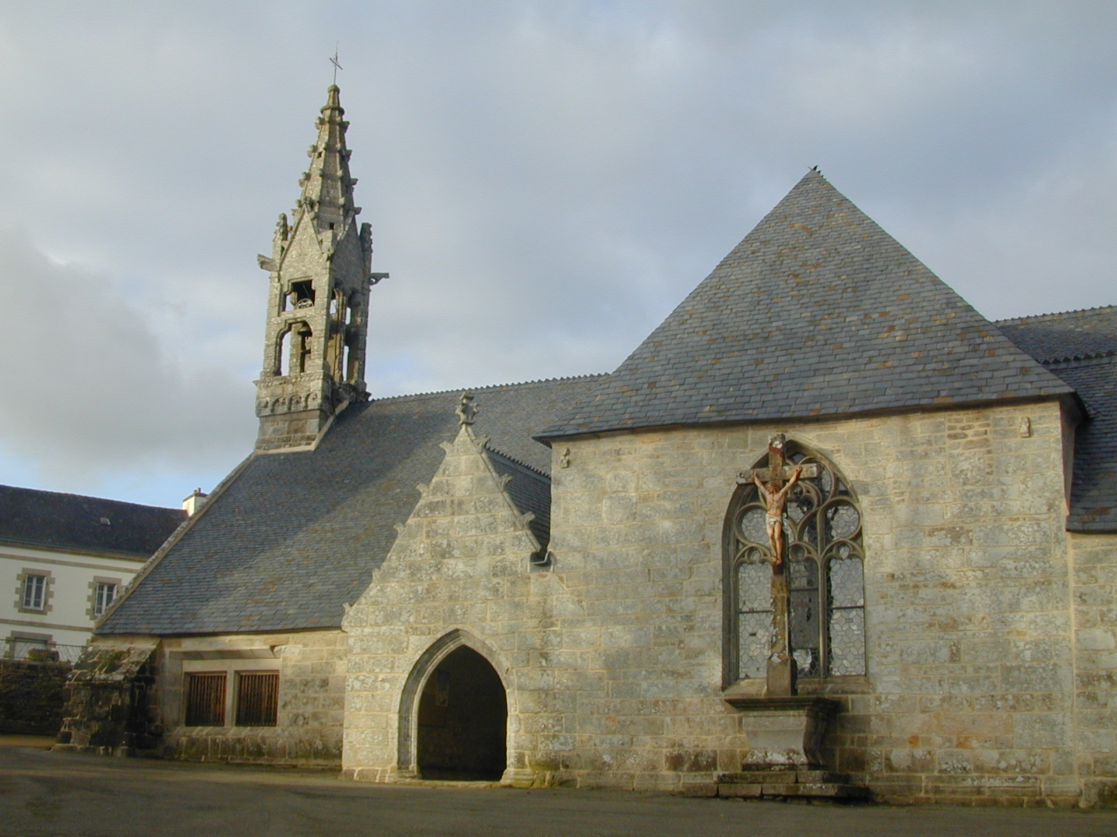 The parochial church Holy Conogan in the village of Lanvénégen